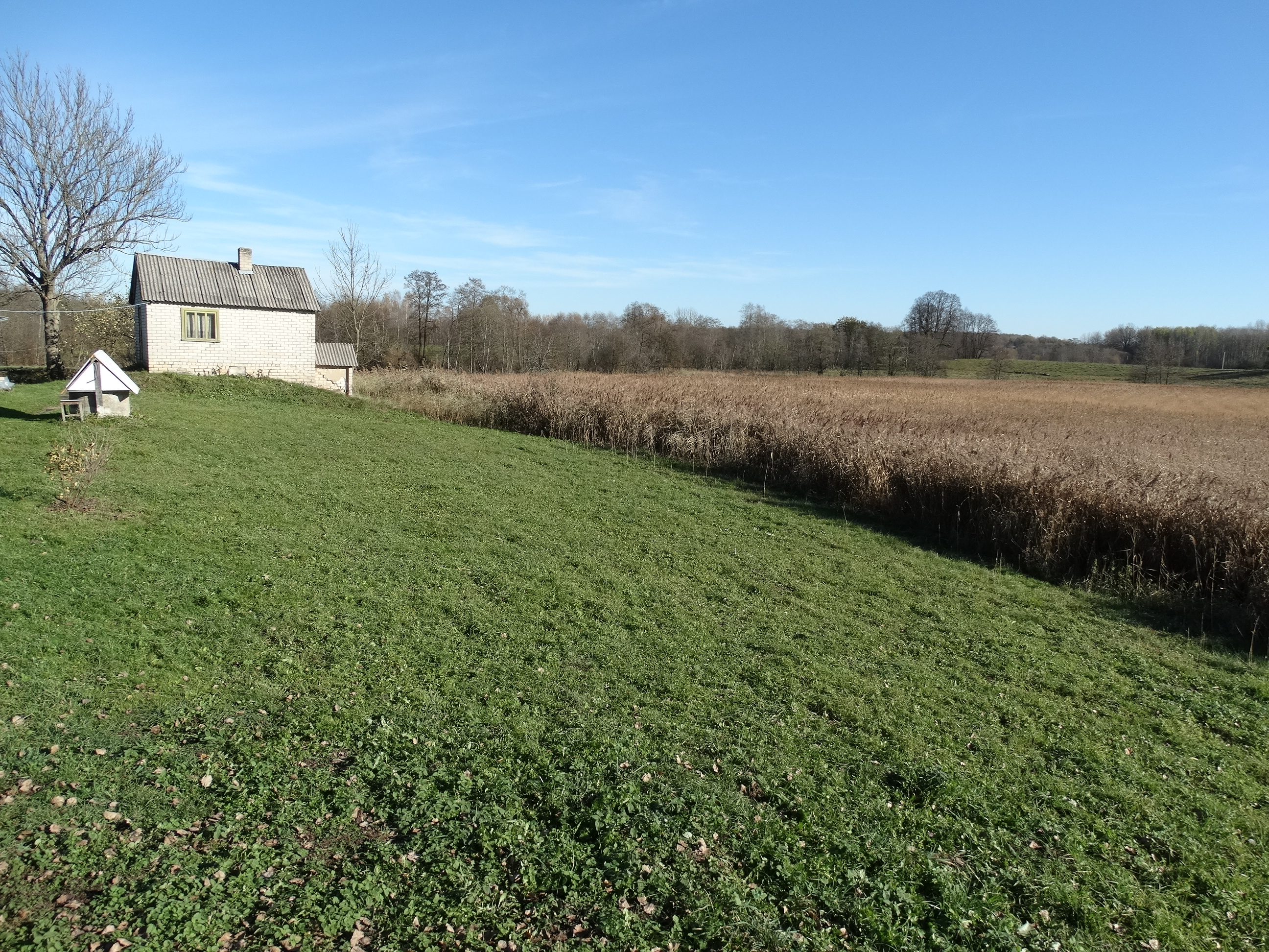 Žiupa, Prienai District, Lithuania